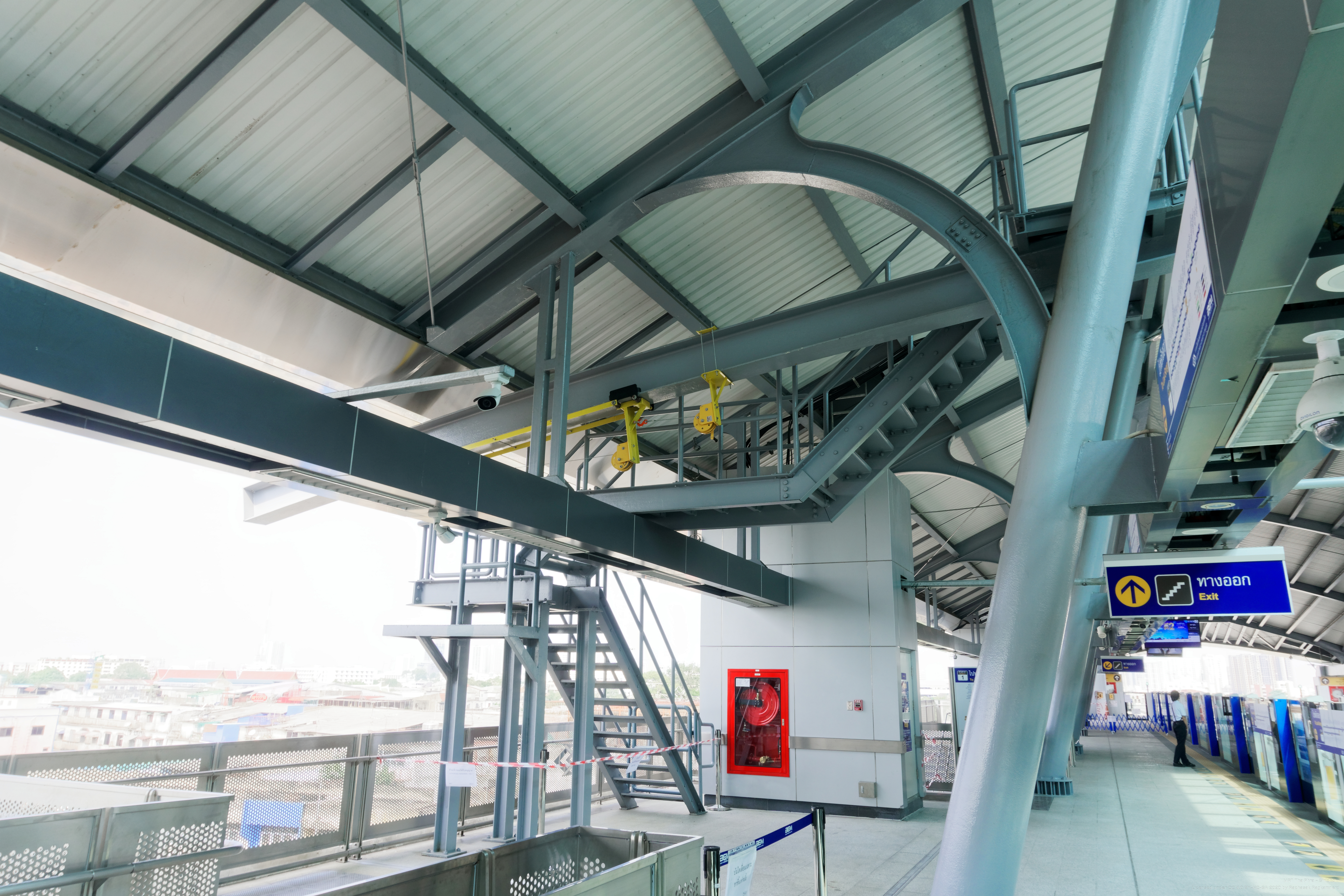 MRT Bang Khun Non – Platform crossing bridge – hoisting mechanic. It was mainly use for moving the Buddha’s artifact from the canal in an anually tradition where the artifact won’t cross below the brige. It must be hoisted up from the canal and cross above.